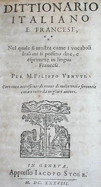 First page of Venuti's book "Dittionario italiano francese" (1638, new printing), printed in Genova (Italy) by Jacopo Stoer. Filippo Venuti was an italian grammaticist and writer of XVIth Century.